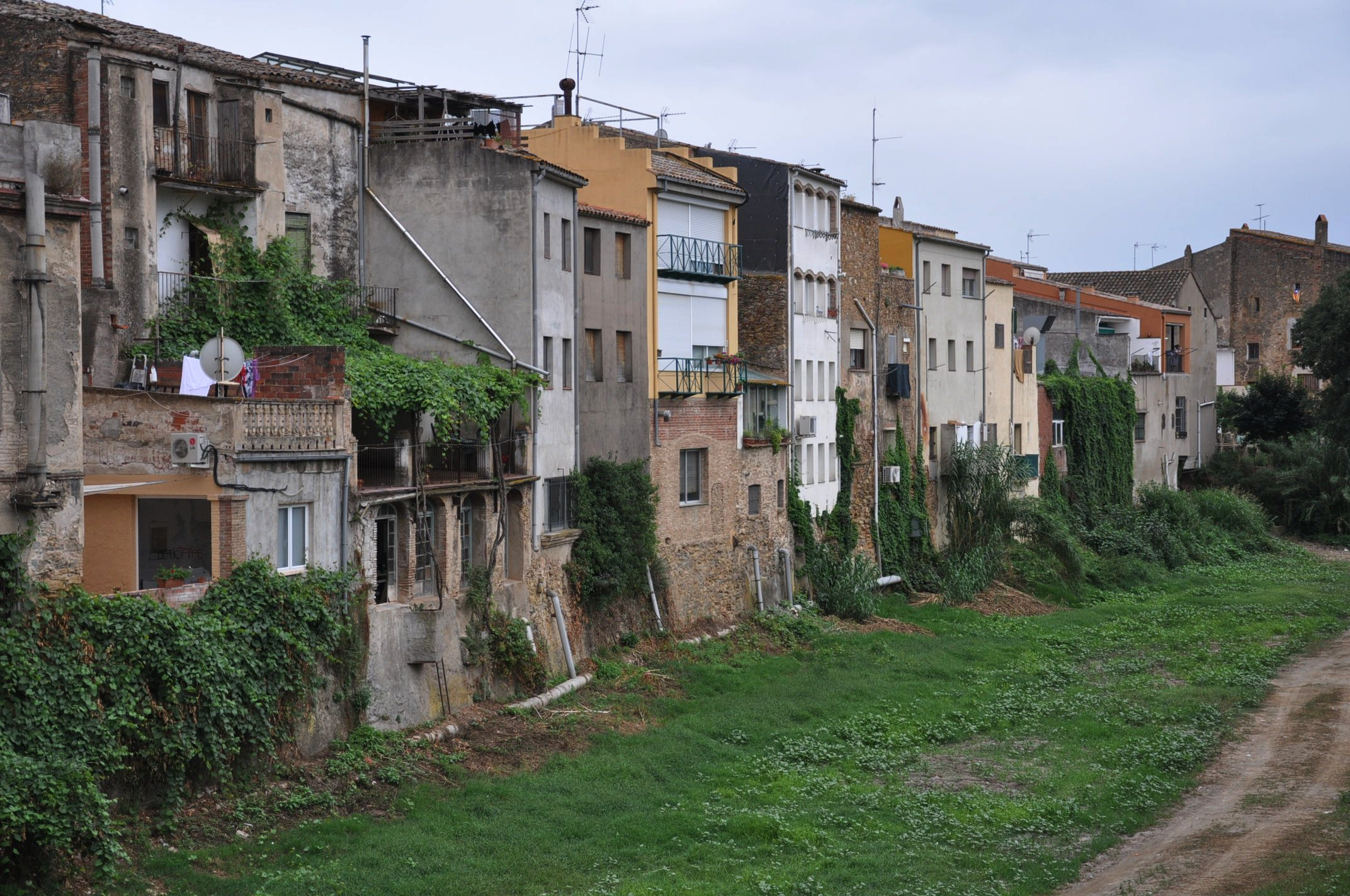 The dry bed of the river Daró in the centre of La Bisbal d'Empordà (Baix Empordà, Catalonia, Spain), seen from the Old Bridge (Pont Vell).